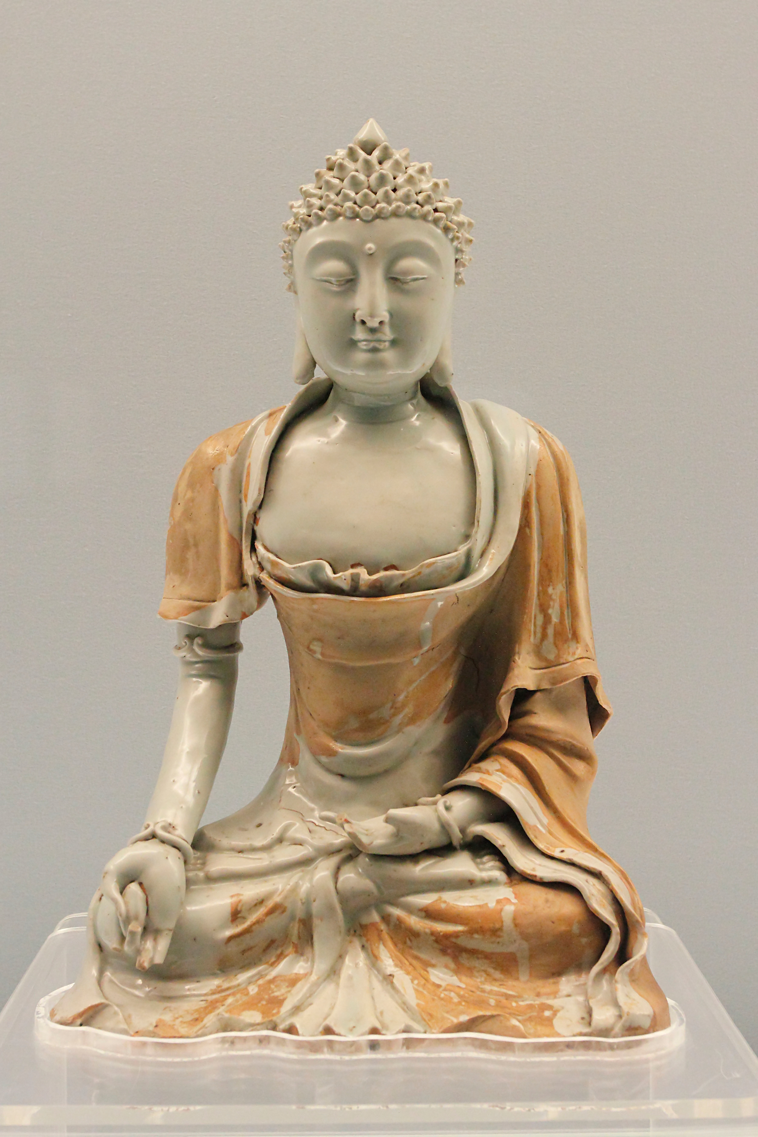 Qingbai(bluish white) glazed buddha statue, Jingdezhen ware，1271～1368 A.D., a collection of Shanghai Museum